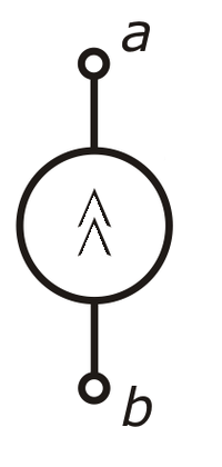 Source of current